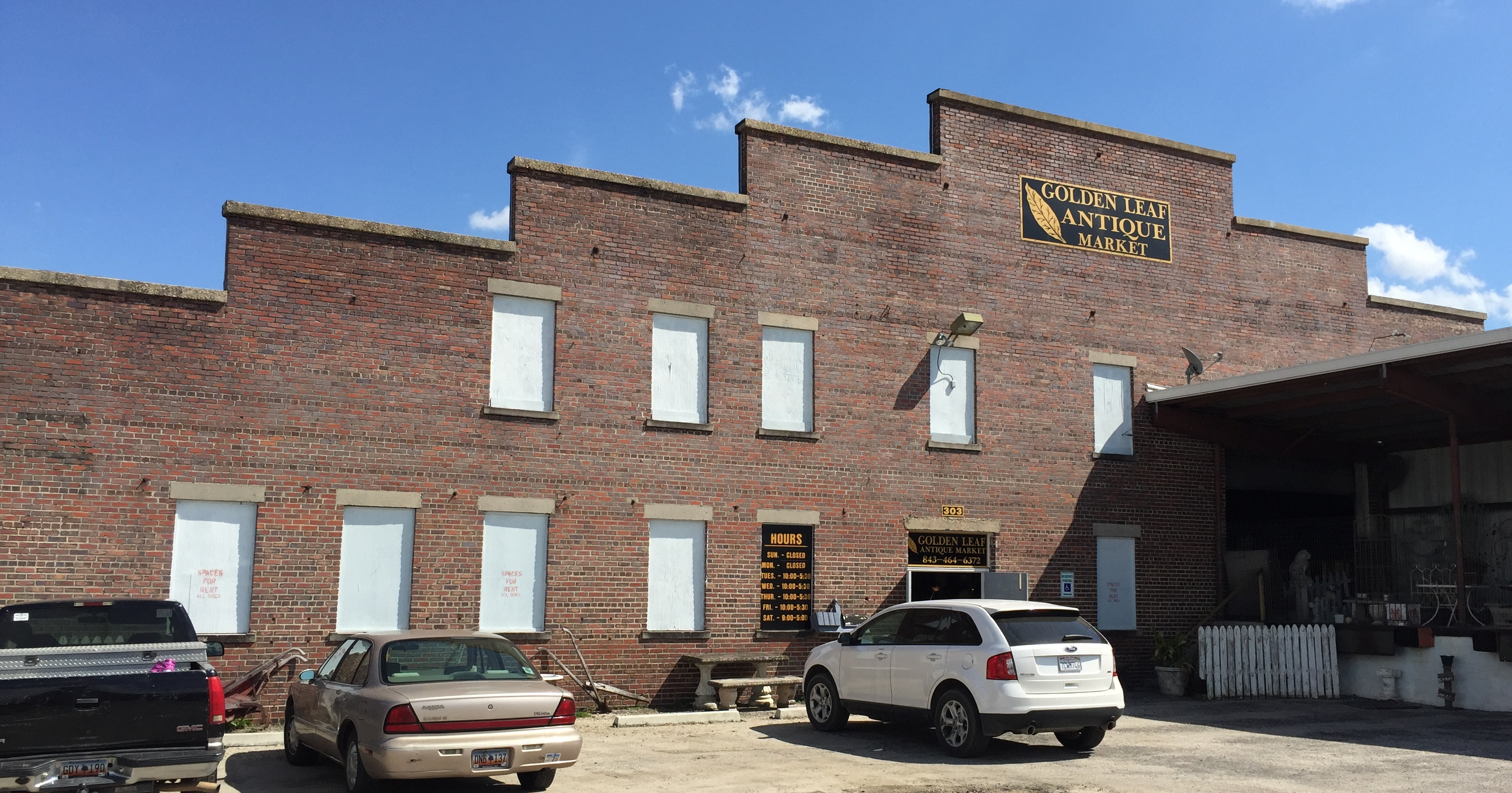 303 S. Main Street, Mullins, South Carolina